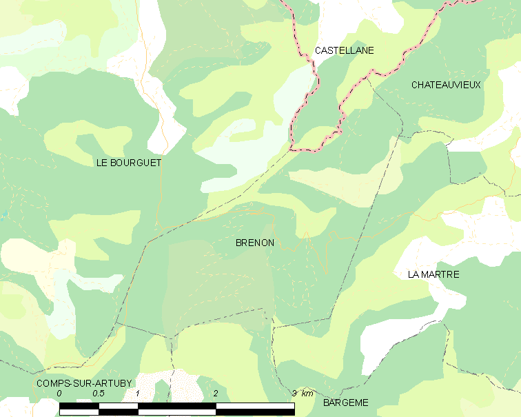 Map of French municipality Brenon